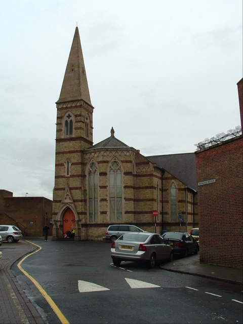 Lynn Museum This former Baptist chapel was converted into a museum in 1904. It has recently had a major overhaul to make space for a display of the Seahenge discovered on the beach near Hunstanton.